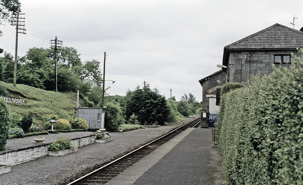 Collooney Station. View eastward, towards Mullingar and Dublin; ex-Midland Great Western, Dublin - Mullingar - Sligo line. This is the remaining one of three Collooney stations, the other two having been on a branch to Claremorris and on the Sligo, Leitrim & Northern Counties line to Enniskillen and long since closed. Note the conversion of the former Up line and platform to a garden and the station name in whitewashed stone on the bank.